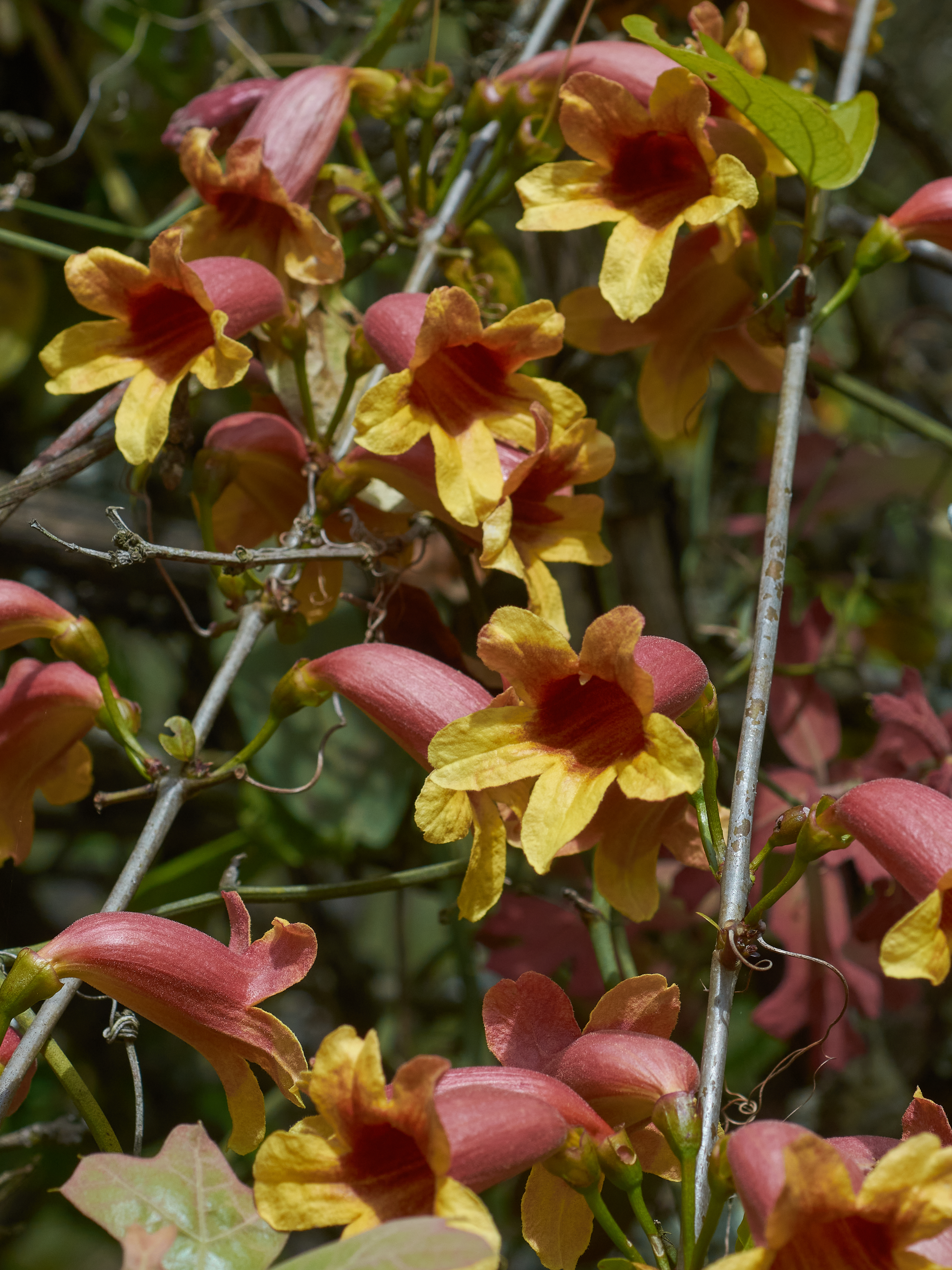 Photographed in Pulaski County, Arkansas